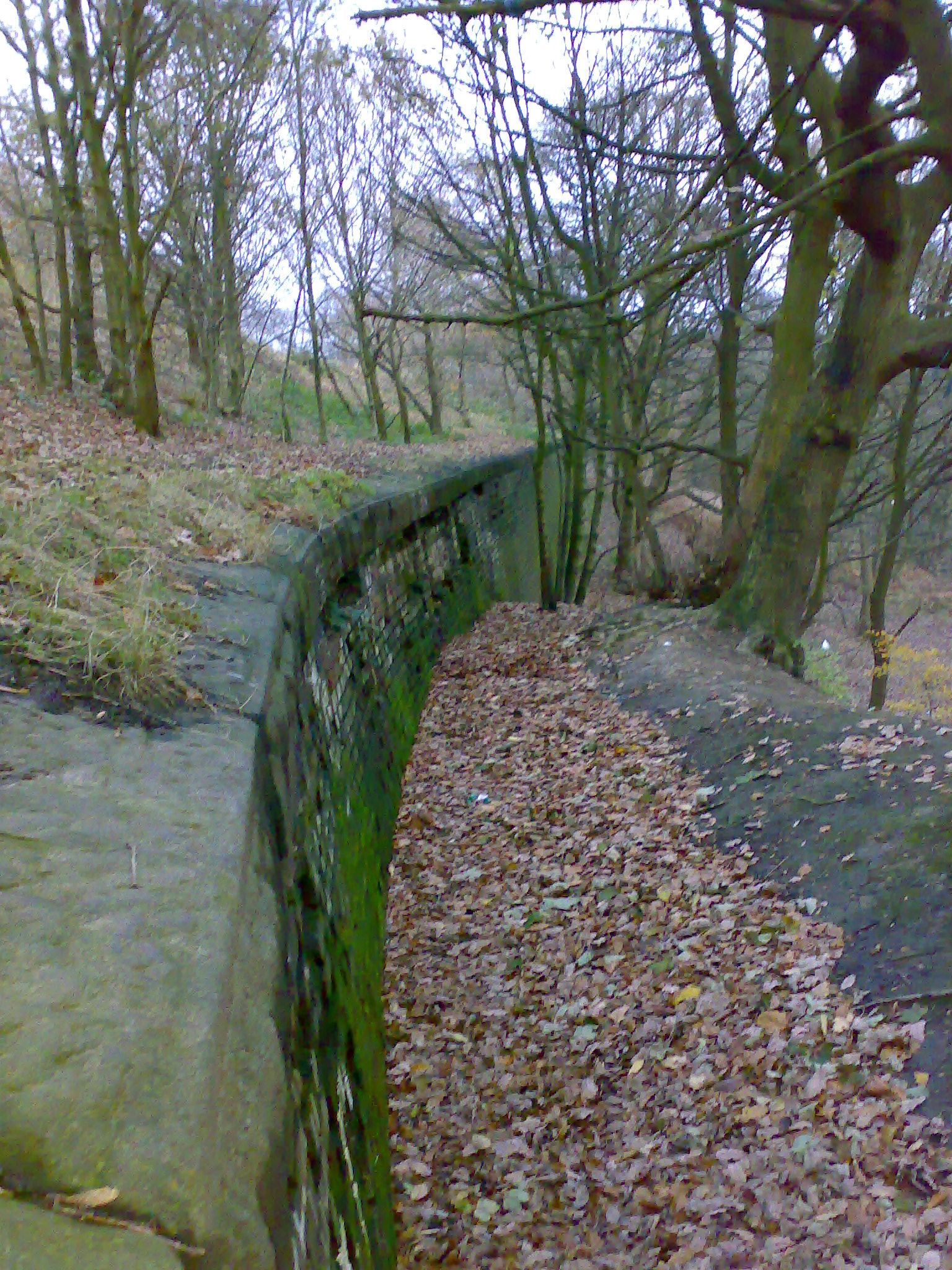 One of the long walls used to reinforce the canal as it passes through the Irwell Valley. This wall is just west of Ladyshore, and looks east. The canal is a few feet up the bank, to the left of the image.